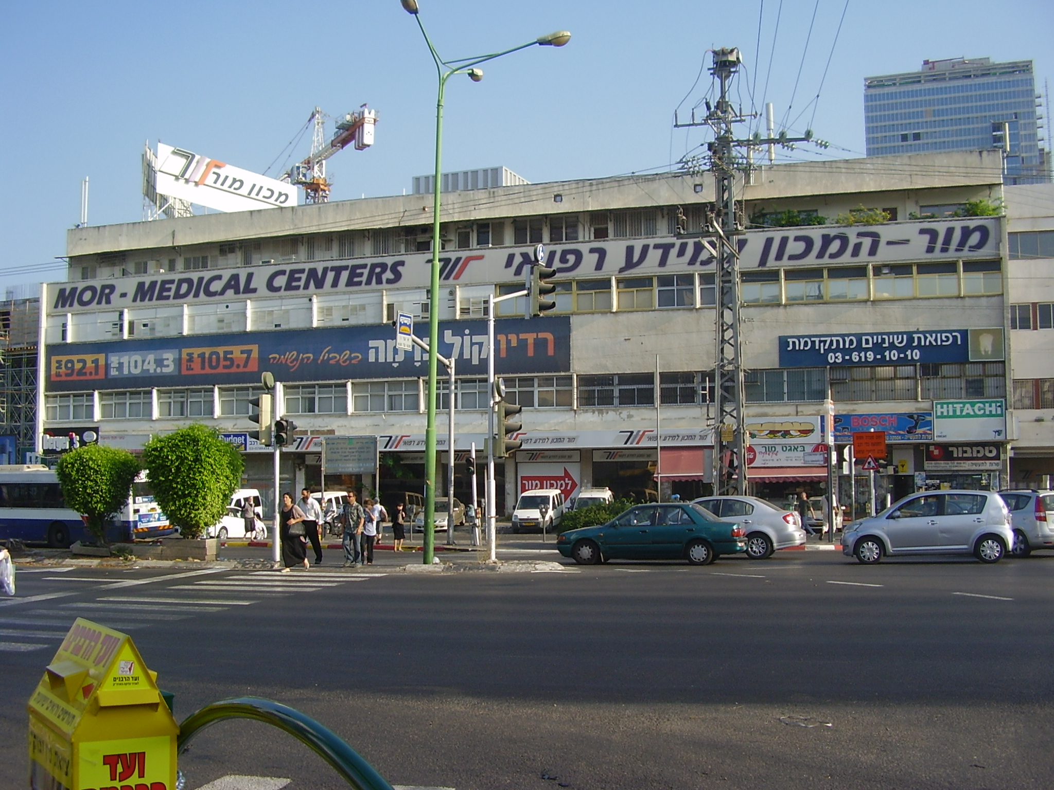 mor medical center in bnei brak מכון מור ורדיו קול ברמה בבני ברק